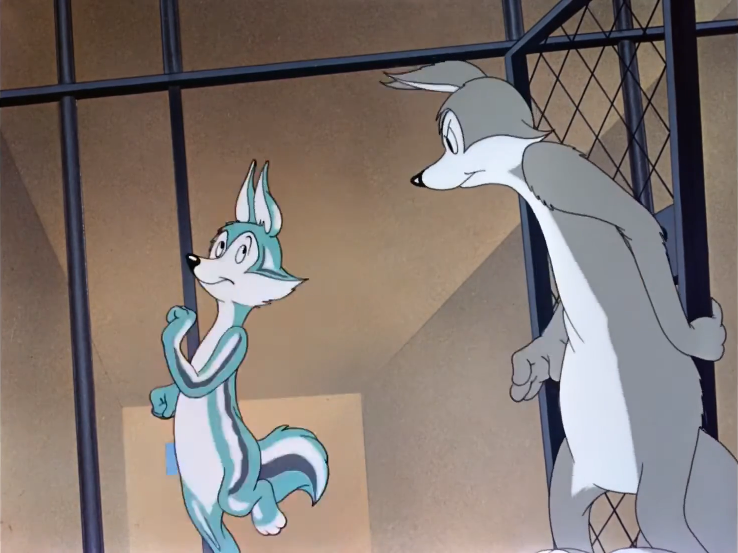 The painted-silver fox (left), and his next-door cell mate (right) make their escape.